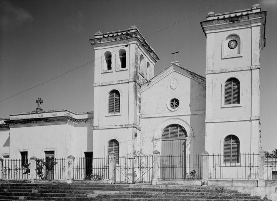 Iglesia San Mateo de Cangrejos, Northwest of Calle San Jorge at Calle San Mateo,Sa, San Juan (San Juan County, Puerto Rico) cropped This file comes from the Historic American Buildings Survey (HABS), Historic American Engineering Record (HAER) or Historic American Landscapes Survey (HALS). These are programs of the National Park Service established for the purpose of documenting historic places. Records consist of measured drawings, archival photographs, and written reports. When reusing please credit: Library of Congress, Prints & Photographs Division, PR,7-SAJU,38-1 This tag does not indicate the copyright status of the attached work. A normal copyright tag is still required. See Commons:Licensing. This work is in the public domain in the United States because it is a work prepared by an officer or employee of the United States Government as part of that person’s official duties under the terms of Title 17, Chapter 1, Section 105 of the US Code. Note: This only applies to original works of the Federal Government and not to the work of any individual U.S. state, territory, commonwealth, county, municipality, or any other subdivision. This template also does not apply to postage stamp designs published by the United States Postal Service since 1978. (See § 313.6(C)(1) of Compendium of U.S. Copyright Office Practices). It also does not apply to certain US coins; see The US Mint Terms of Use. This file has been identified as being free of known restrictions under copyright law, including all related and neighboring rights. Object location18° 26′ 48″ N, 66° 03′ 50″ W